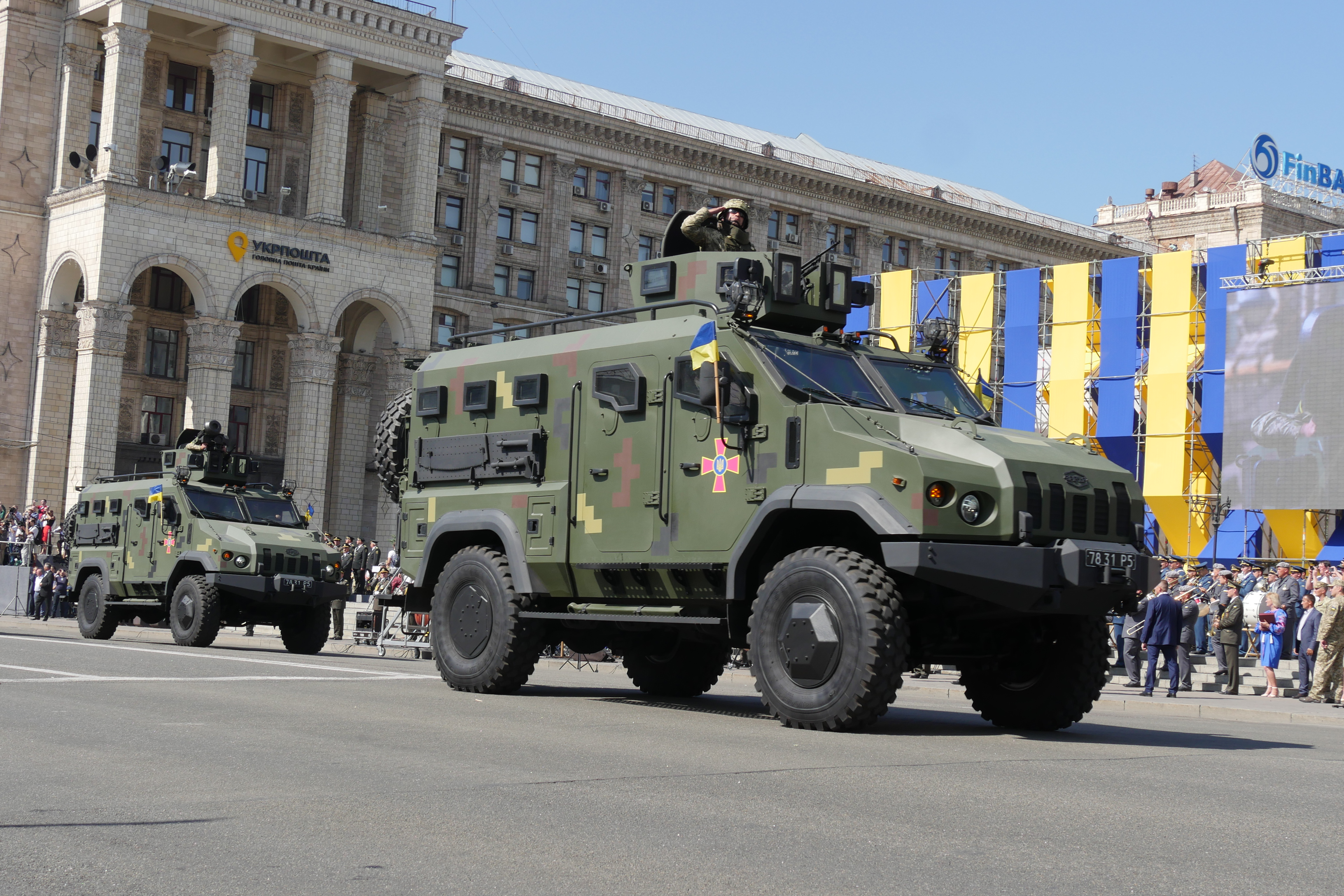 Varta.